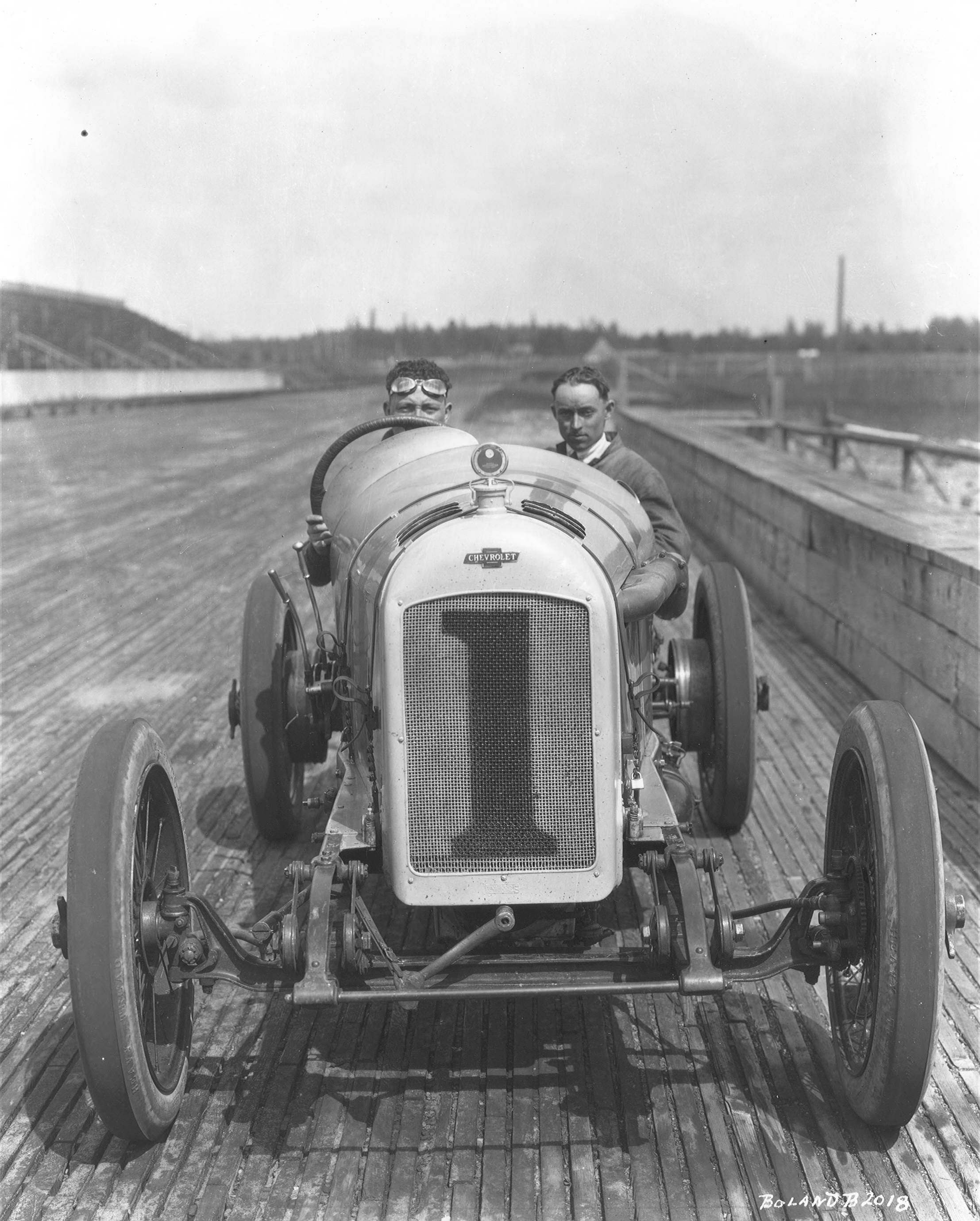 R.C. "Cliff" Durant, California millionaire and automobile manufacturer, with his "mechanician" Fred Comer, on the Tacoma Speedway track in July of 1919. Five of the country's best known racing stars came to Tacoma for a one-day-only series of three races. Cliff Durant would join fellow racers Dario Resta, Louis Chevrolet, Eddie Hearne and Ralph Mulford at the Tacoma Speedway on July 4th for a total purse of $15,000. Mr. Durant would pilot his Chevrolet Special No. 1 in the afternoon races. He had qualified third with an average speed of 102.56 mph on July 1st, allowing him to be placed in the front row with Ralph Mulford and top qualifier, "Grandpa" Louis Chevrolet, who was on the pole. The Frontenac team of Chevrolet and Mulford would win all three races with Mr. Chevrolet the winner in the 60 and 80 mile events. Mr. Durant finished second in the first race, the 40-mile event, fourth in the second race, the 60-mile, and third in the final race of 80 miles. (TNT 7-2-19, p. 19-article; 7-5-19, p. 1-article) TPL-106; G51.1-108